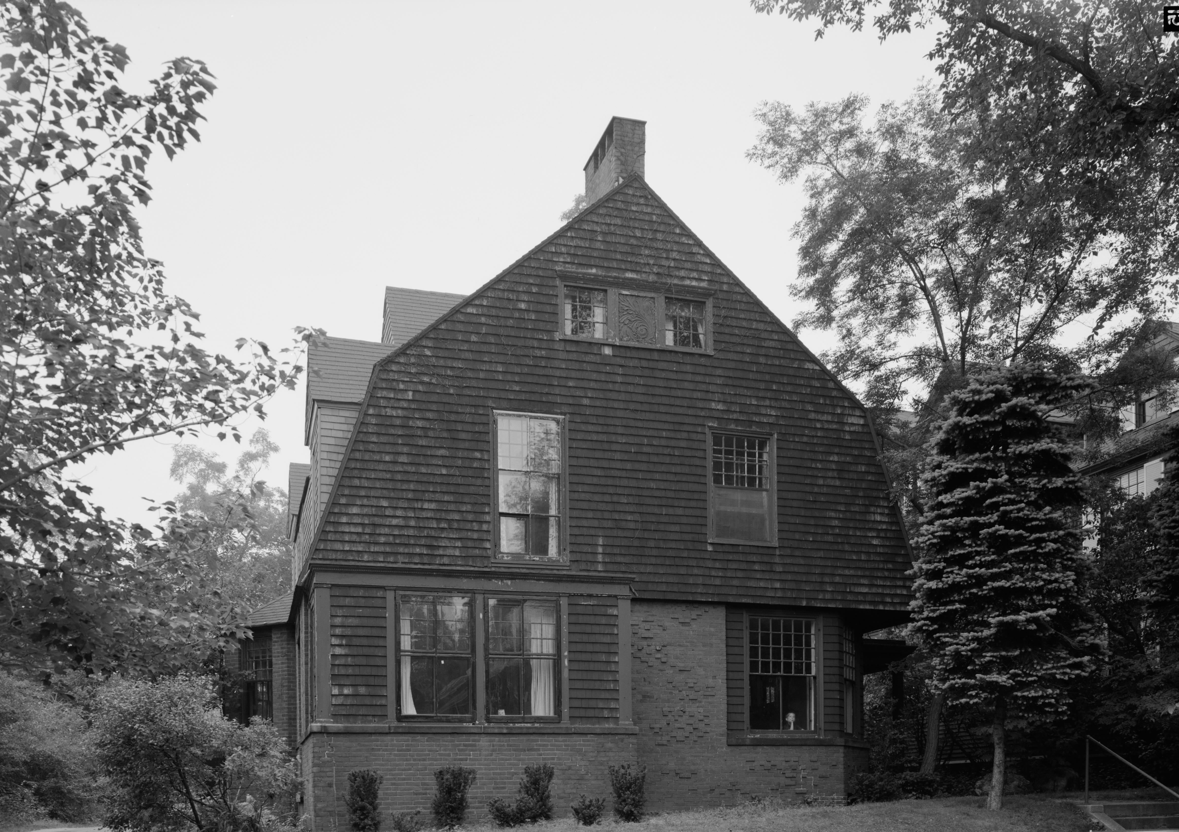 Front of the John Calvin Stevens House, located at 52 Bowdoin Street in Portland, Maine, United States. Built in 1884, it is listed on the National Register of Historic Places.